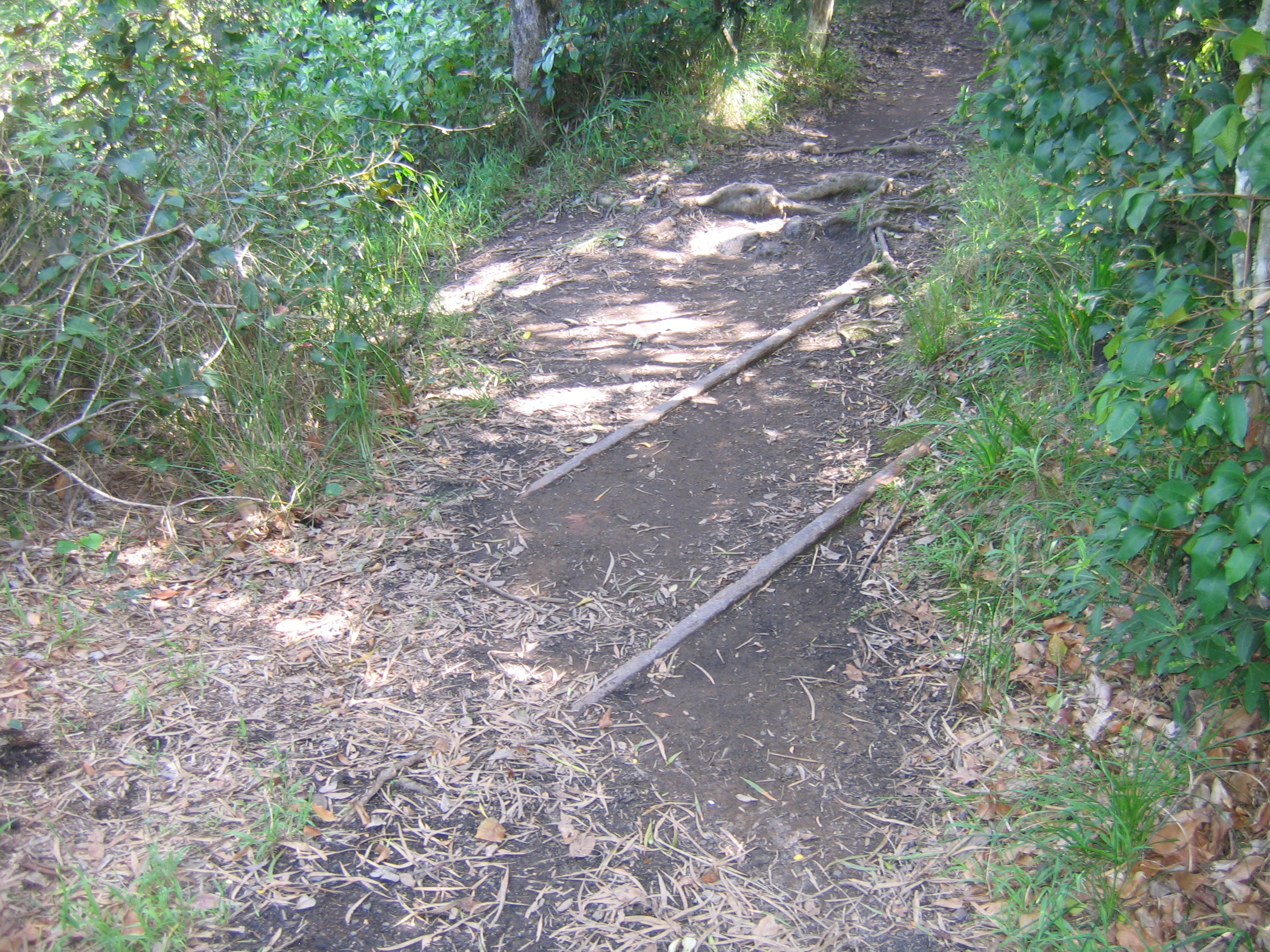 Remnants of an old coal railway line on the Yuelarbah Track near Glenrock Lagoon